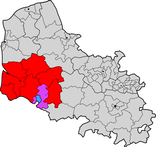 Map of Mouriez municipality in the canton of Hesdin in the arrondissement of Montreuil in the Pas-de-Calais département